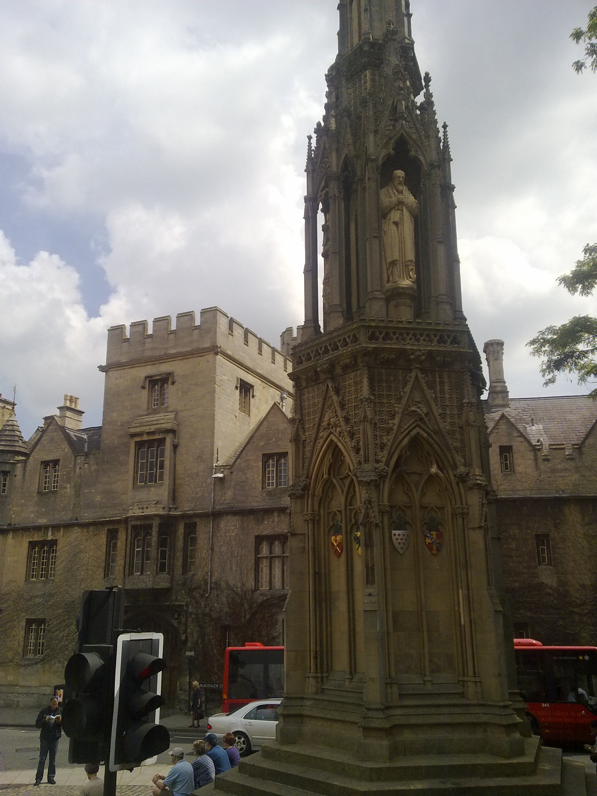 The Martyr's Memorial looking back towards Balliol College.